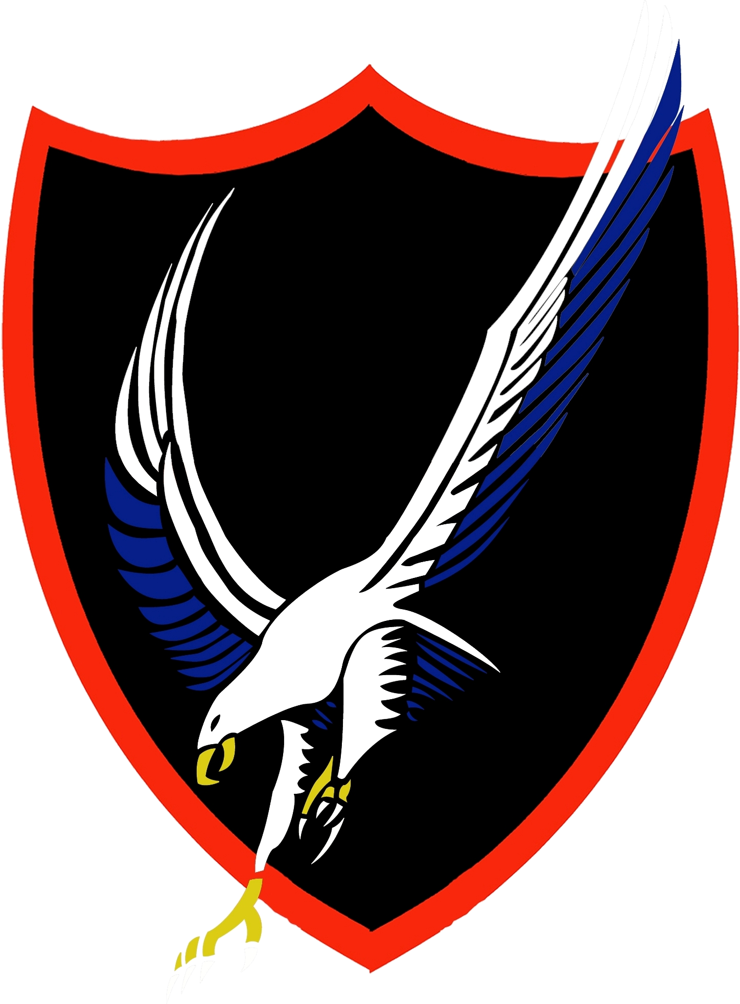 Insignia of the U.S. Navy Strike Fighter Squadron 136 (VFA-136) "Knighthawks".